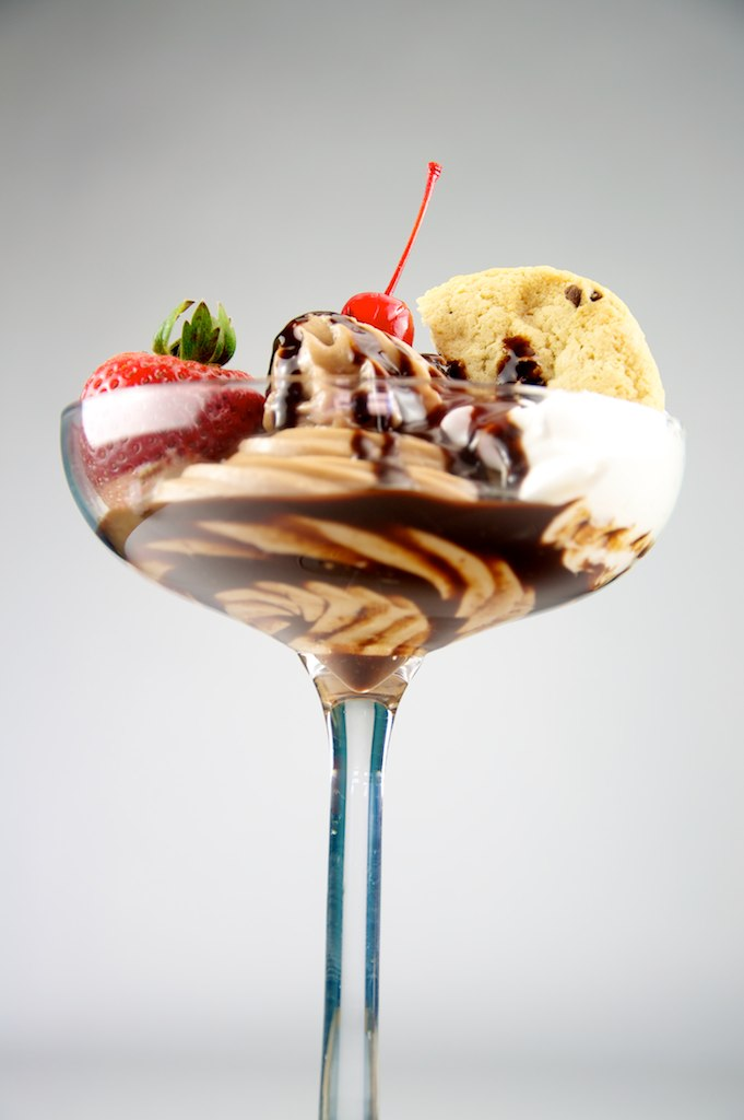 Chocolate Ice Cream Sundae